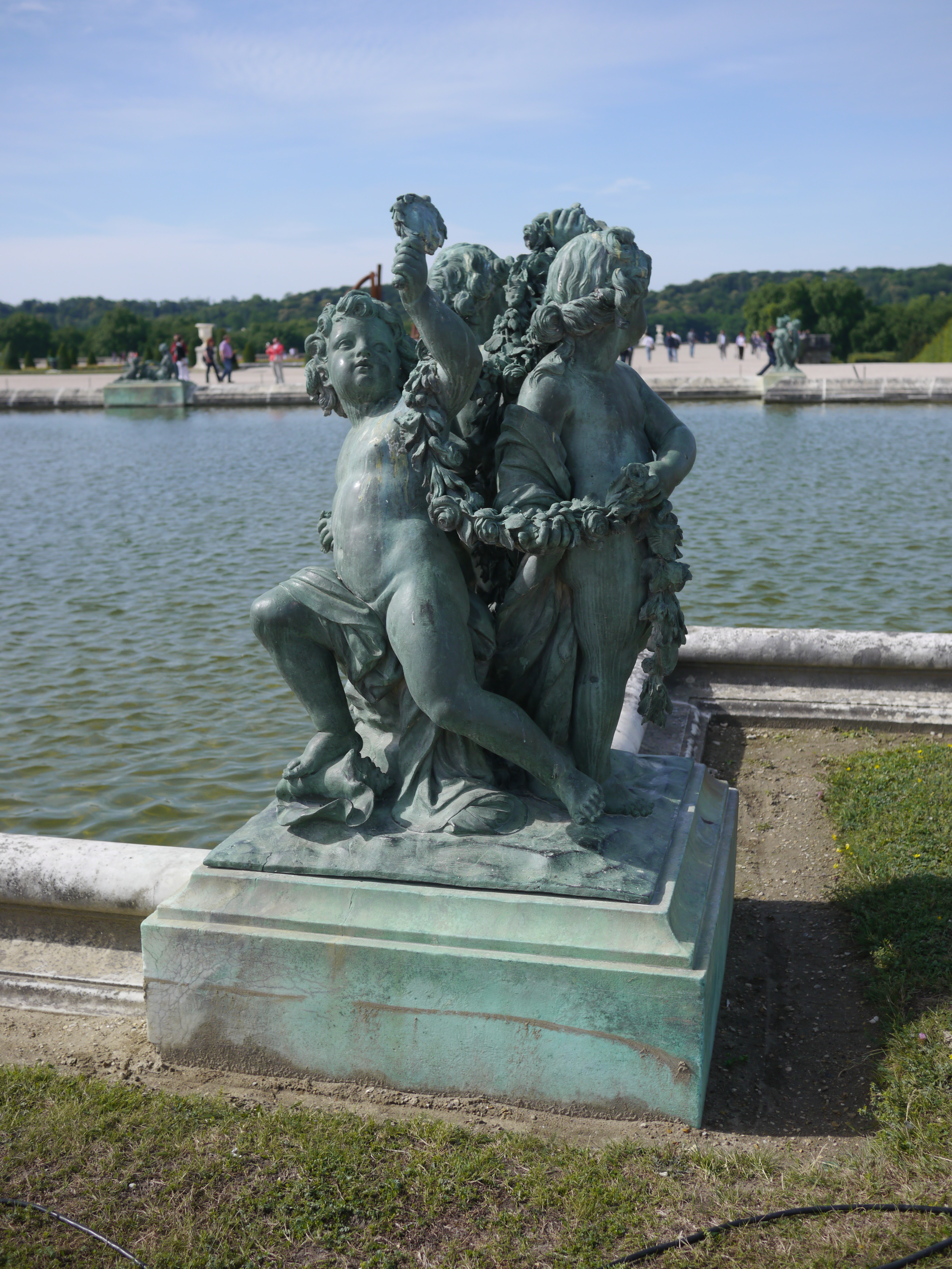 Photograph taken at the Park of the 'Château de Versailles' in France.